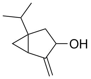 Sabinol